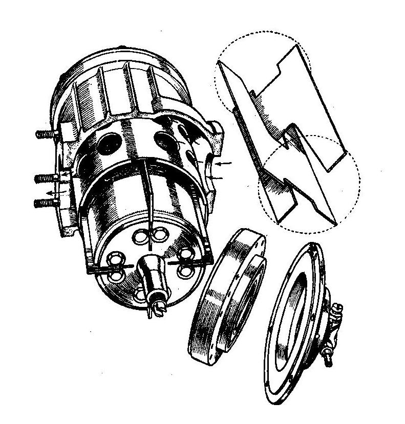 Powerplus supercharger (Autocar Handbook, 13th ed, 1935).jpg